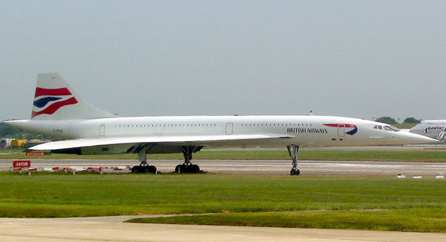 Where did the Concorde go when they took it out of service? This one is sitting between the runways at Heathrow. This can't be a permanent home, but for now it sits there, dwarfed by the jumbo jets (and even the 737-700s) around it.